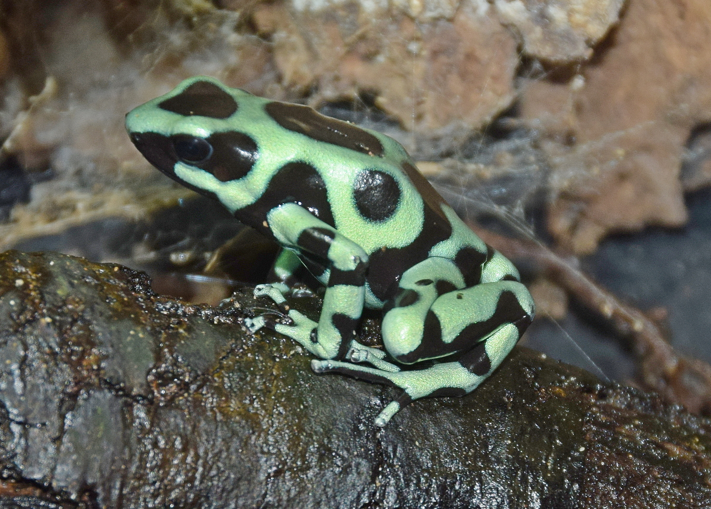 Captive Green and black poison dart frog (Dendrobates auratus) at Slimbridge Wetland Centre, Gloucestershire, England. This frog is about one inch long.